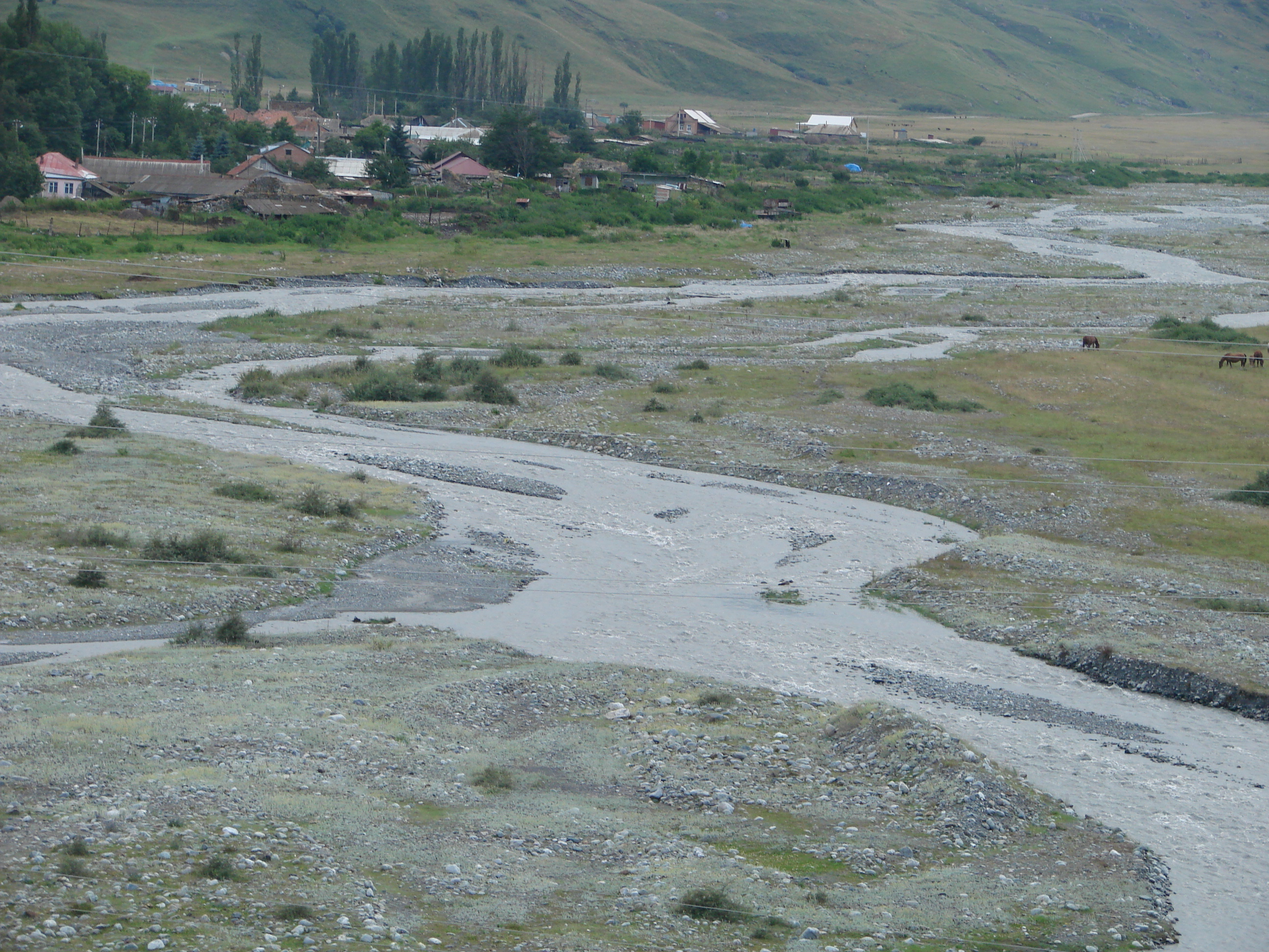 Giseldon River near Dargavs.